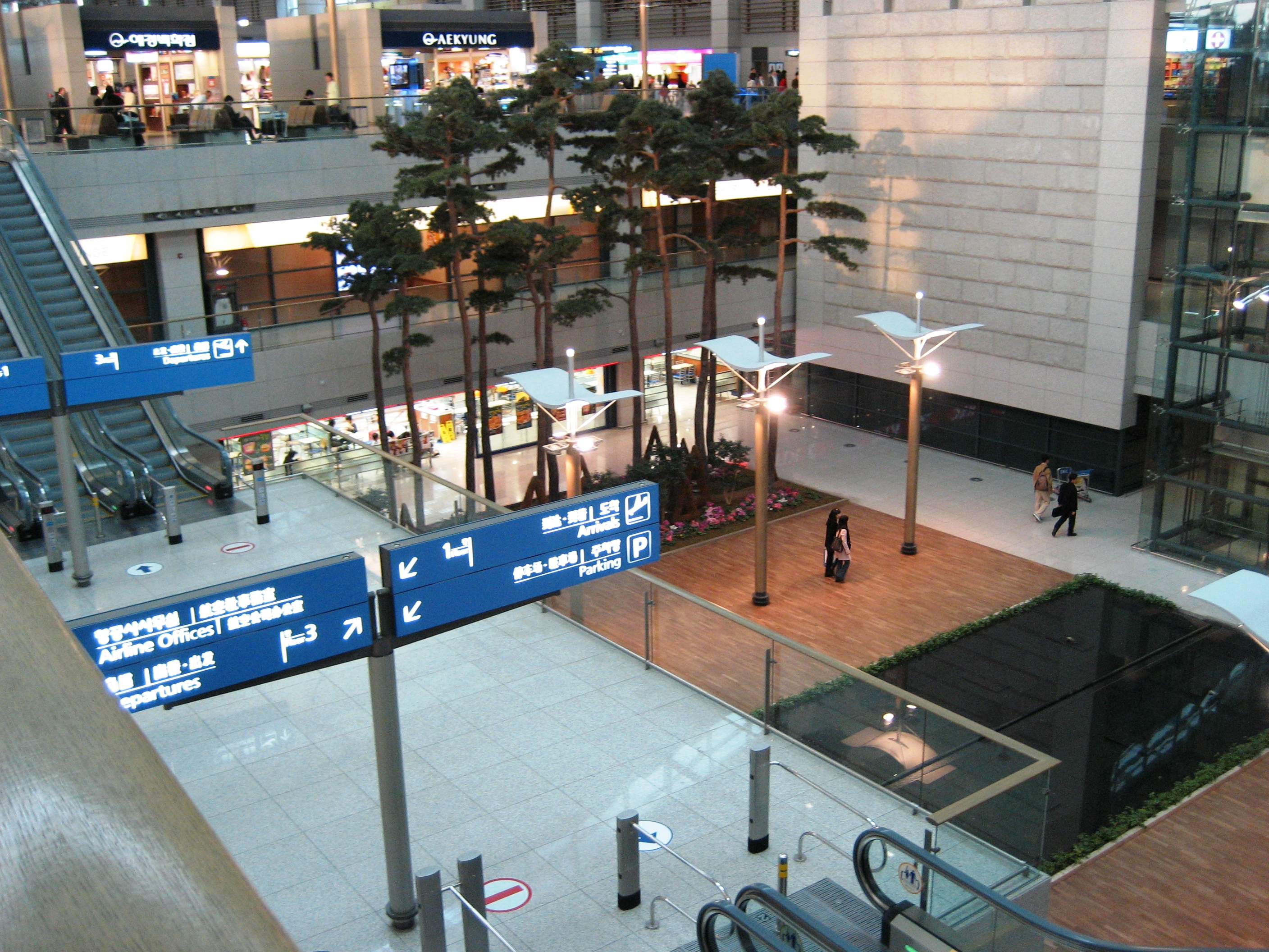 From 3rd floor to 1st floor in Incheon International Airport.